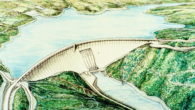 A concept drawing of the Auburn Dam in Northern California, USA. Page credits drawing to the U.S. Army Corps of Engineers.